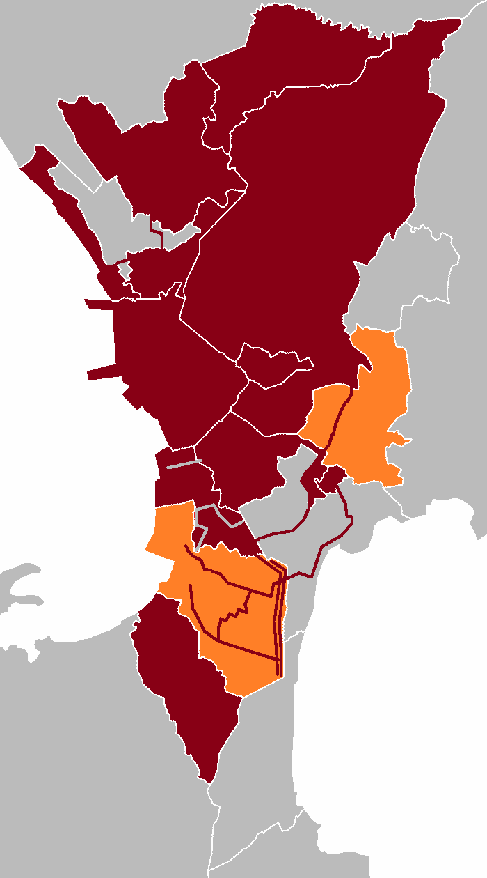 Implementation of the Uniform Vehicular Volume Reduction Program (aka Number Coding Scheme) within Metro Manila. Implemented from 7:00 a.m. to 8:00 p.m., without window hours. Implemented from 7:00 a.m. to 8:00 p.m., with window hours of 9:00 a.m. to 4:00 p.m. Not implemented Tagalog: Pagpapatupad ng Uniform Vehicular Volume Reduction Program sa Kalakhang Maynila. Pinapatupad mula 7:00 n.u. hanggang 8:00 n.g., na walang pagliban Pinapatupad mula 7:00 n.u. hanggang 8:00 n.g., na pinagpapaliban mula 9:00 n.u. hanggang 4:00 n.h. Hindi pinapatupad